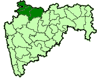 Districts of the Khandesh region of Maharashtra. Based on the district maps series created by Nichalp and released by him into the public domain. QuartierLatin1968 22:19, 23 October 2005 (UTC)